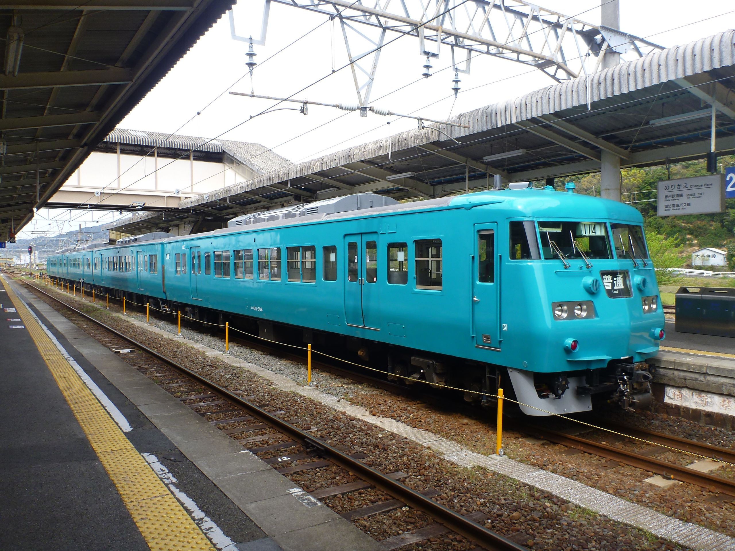 Gobo Station